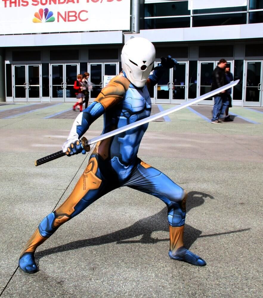 Cropped version of File:WonderCon 2015 - Gray Fox cosplay (16427156494).jpg with adjusted levels.